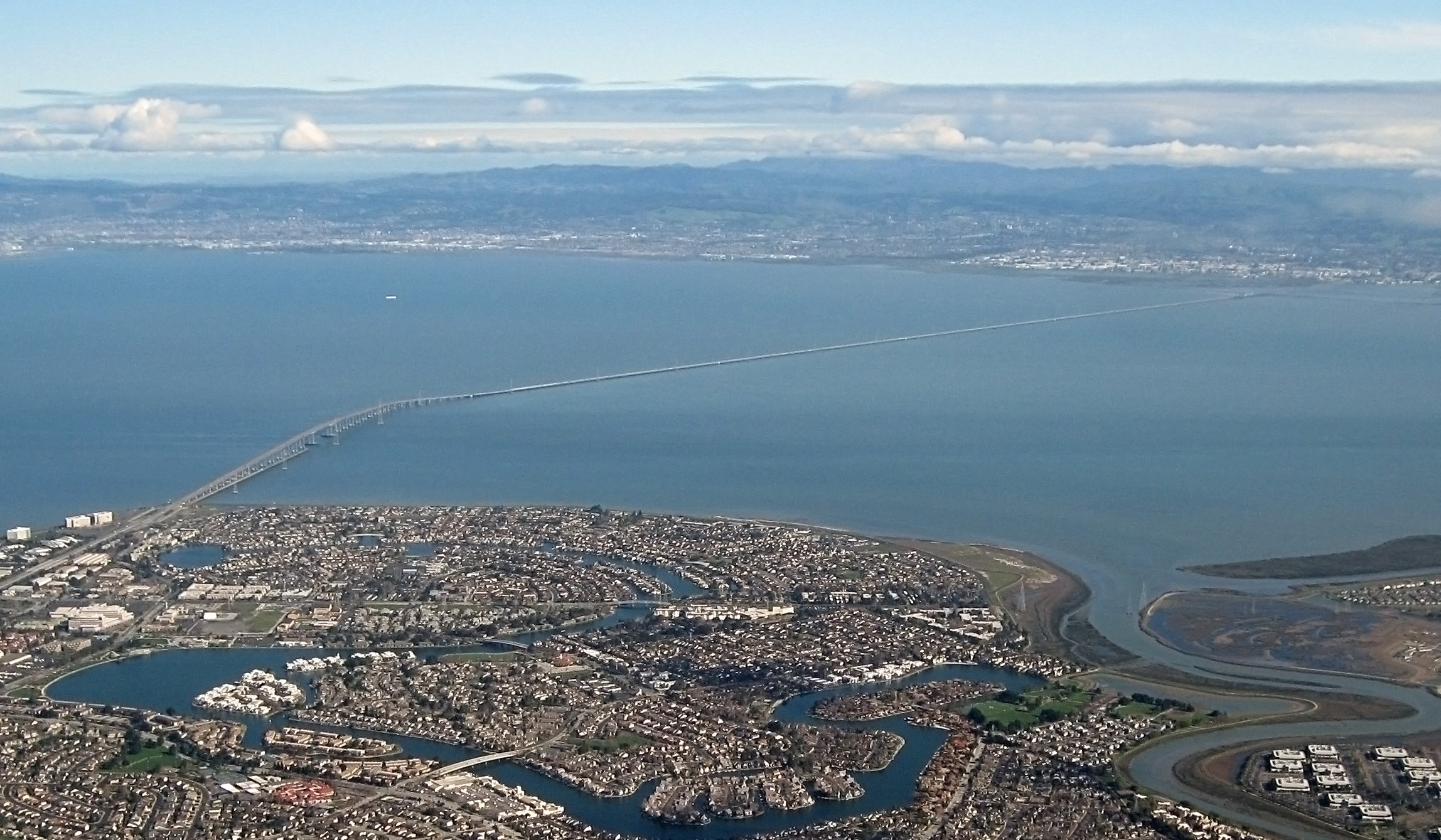 Aerial view of San Mateo-Hayward bridge